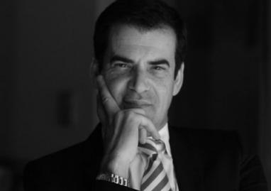 A picture meant to be added to the page on Rui Moreira on Portuguese language wikipedia.